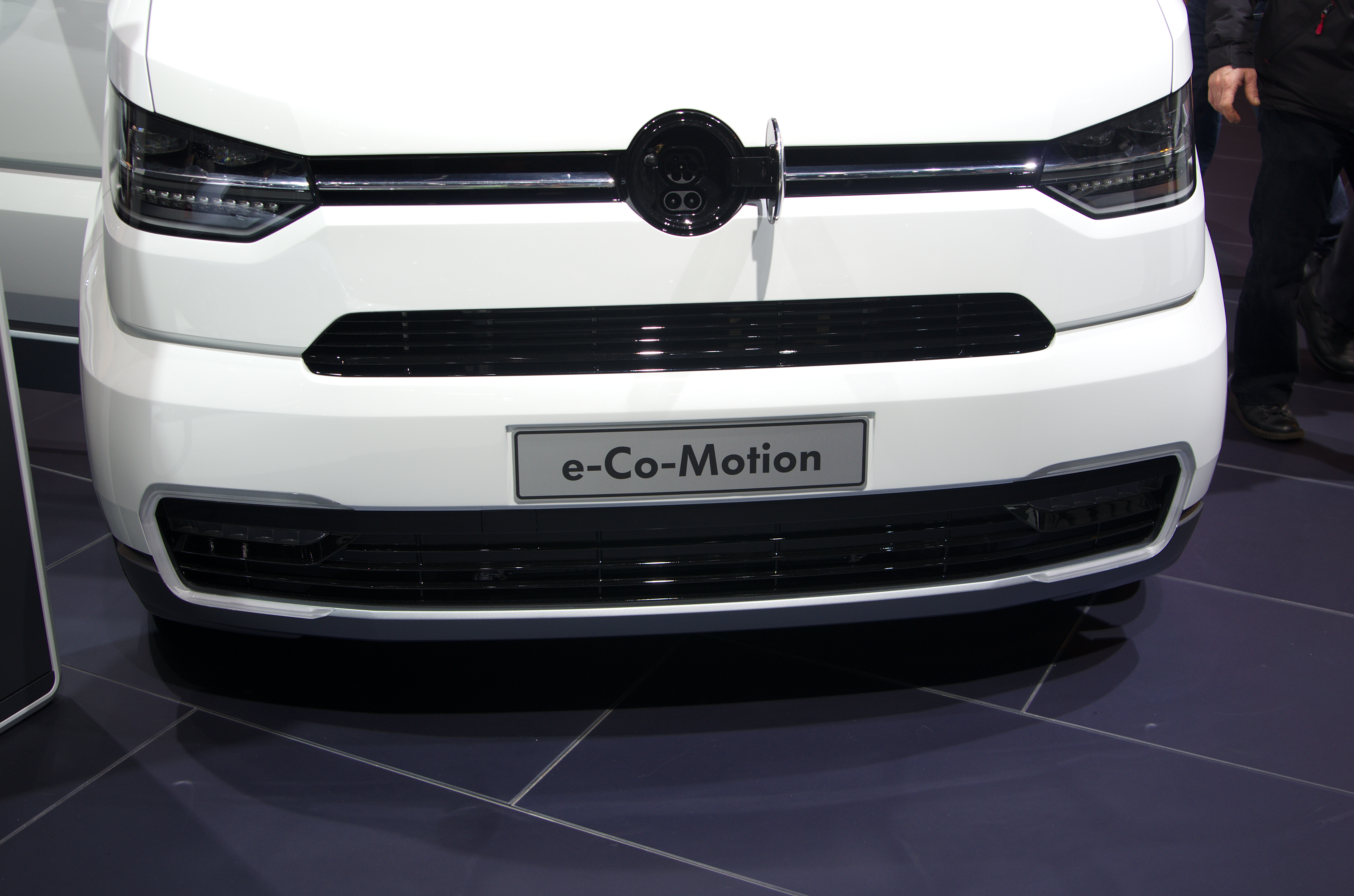 Geneva MotorShow 2013 - Volkswagen e-Co-Motion front